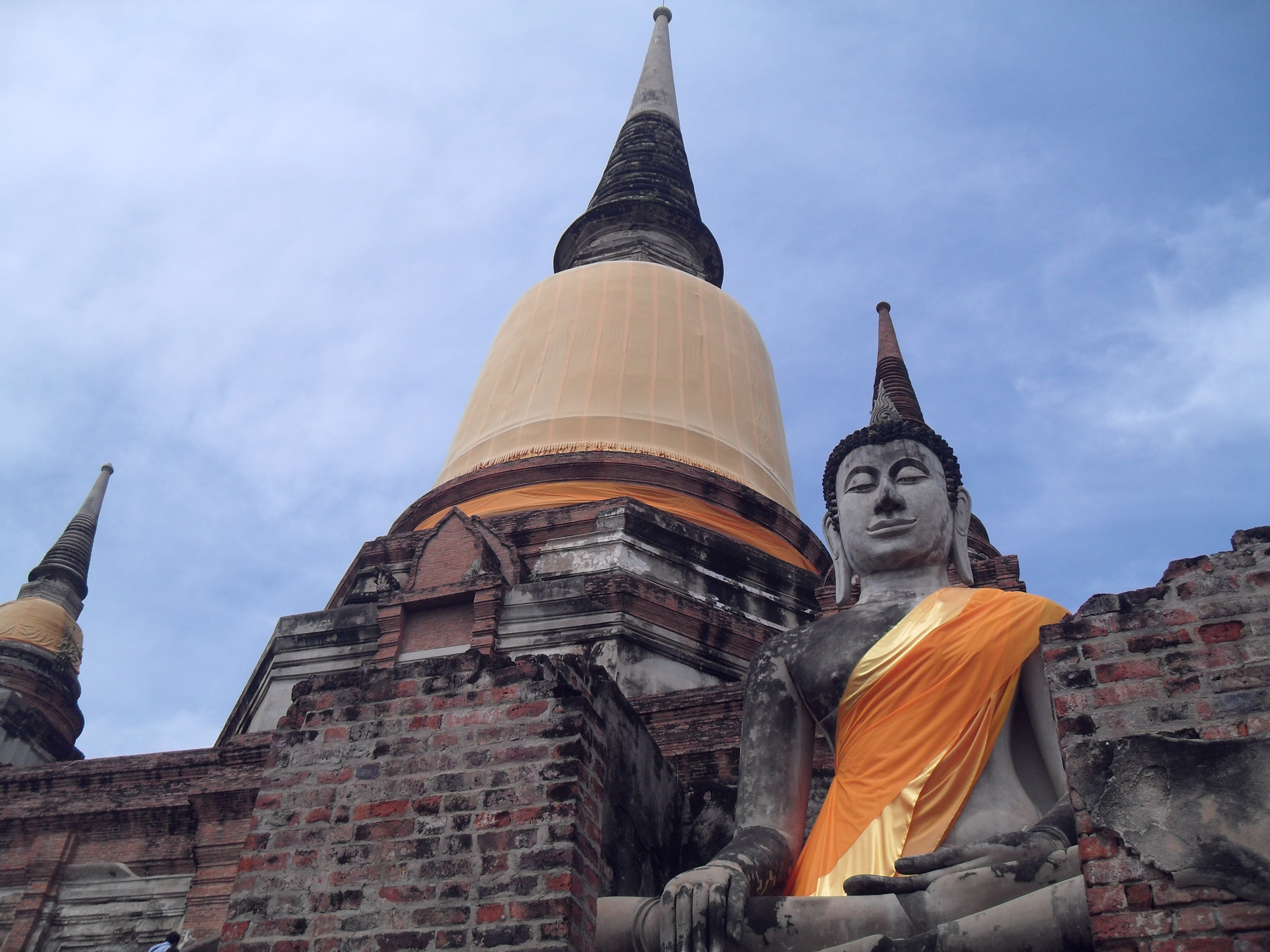 The central chedi of Wat Yai Chai Mongkol, Ayutthaya, Thailand.